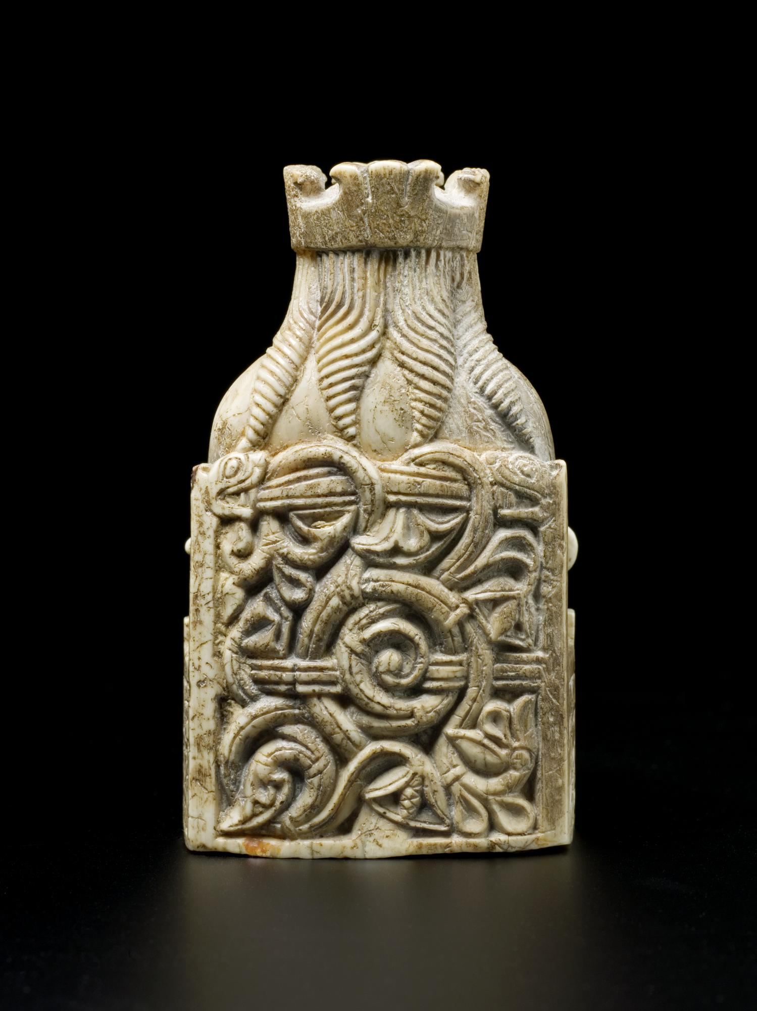 This file was uploaded as part of a partnership between Wikimedia UK and the National Museum of Scotland. This tag does not indicate the copyright status of the attached work. A normal copyright tag is still required. See Commons:Licensing. This work is free and may be used by anyone for any purpose. If you wish to use this content, you do not need to request permission as long as you follow any licensing requirements mentioned on this page.